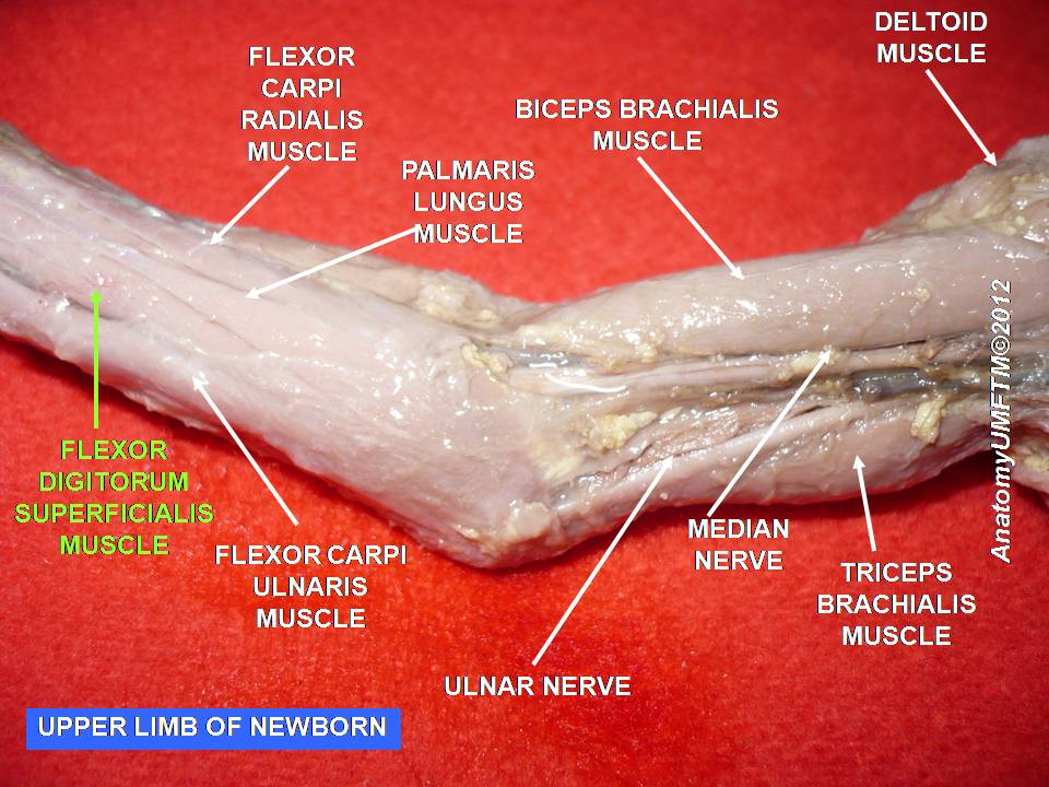 Anatomical dissection